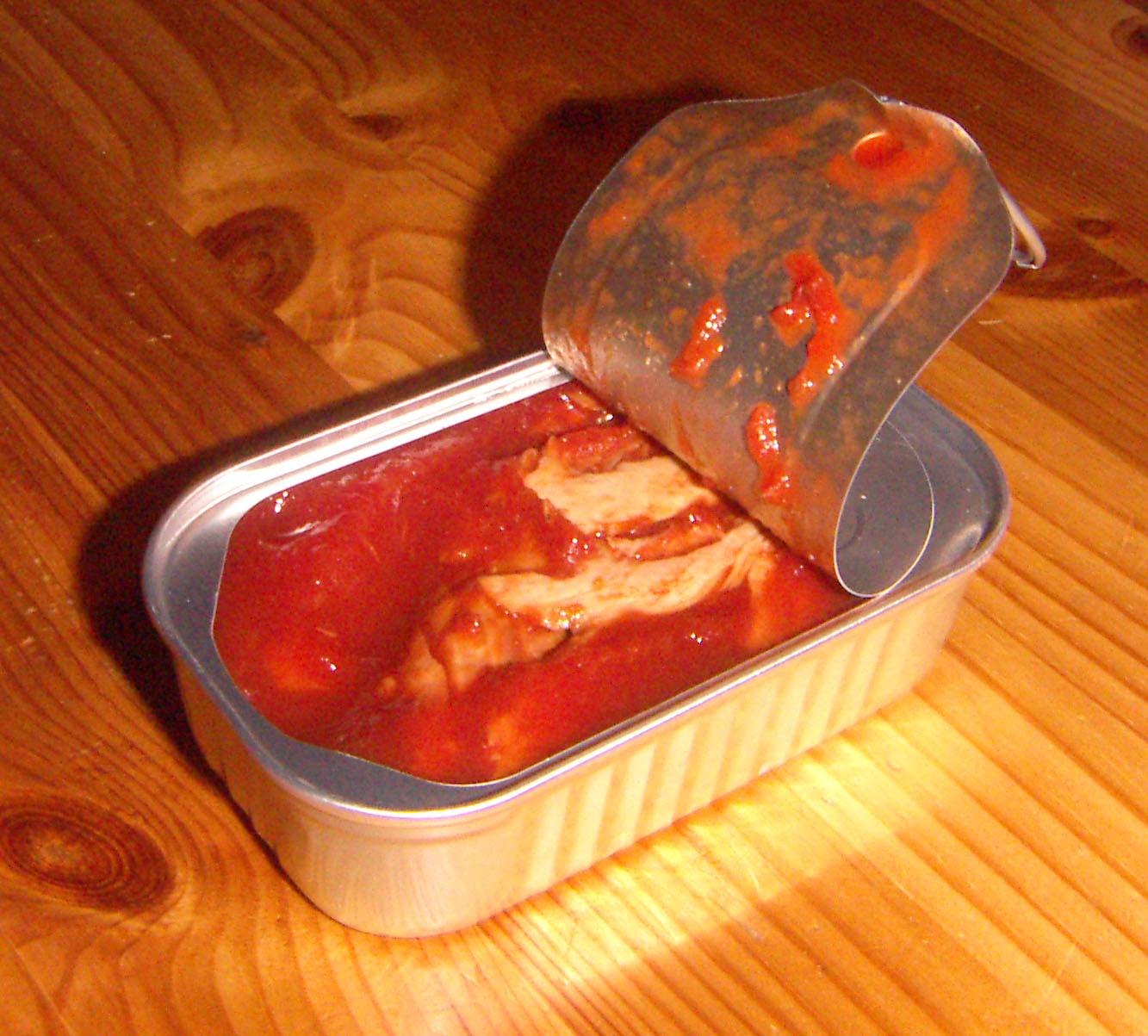 Tinned mackerel fillet in tomato sauce, a popular food in Scandinavia and the UK.